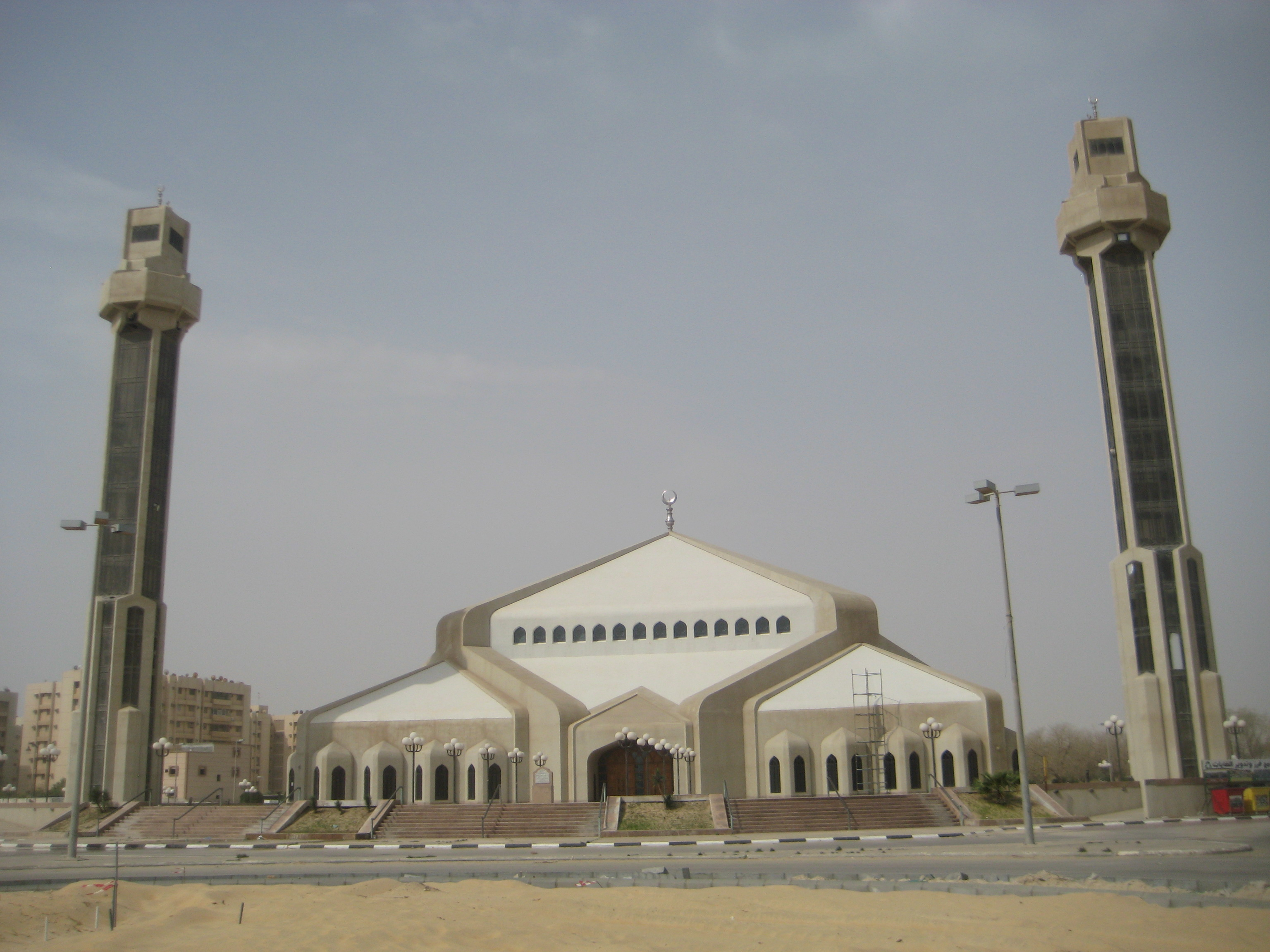 Masjid, Mosque Muslim worship place. Location : Al Khobar, Saudi Arabia (Near to Lulu Hypermarket, Aziziyah Road)